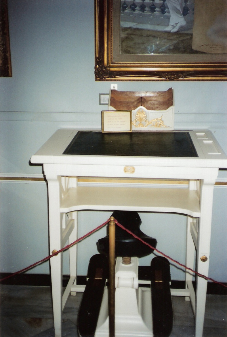 White laquered oak bookrest with paper case and gold inlay; Kaiser's saddle, oak swivel stool with saddle-shaped seat, Achilleion, Corfu, Greece.